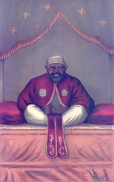 Caricature of The Emperor of Abyssinia.